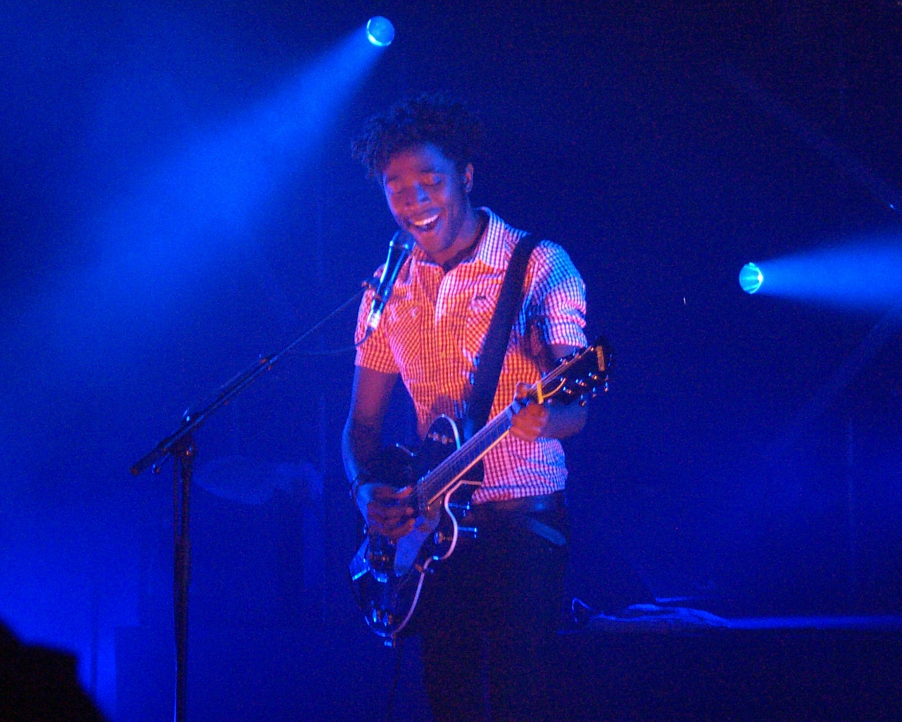 Photo of Kele Okereke during a gig in Southampton, UK